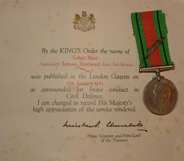 ArthurBlair